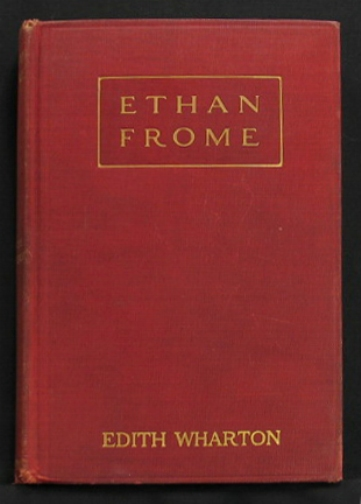 Cover of the first edition of Ethan Frome (1911).